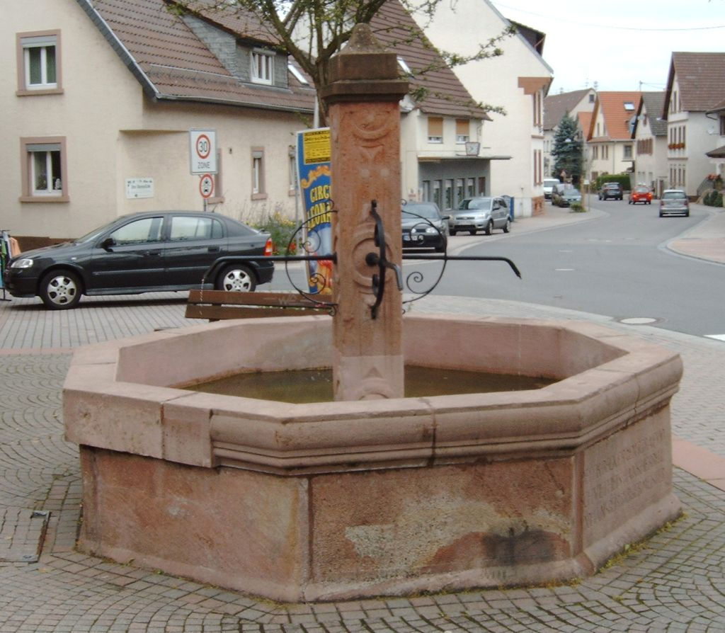 Fountain in Hirschberg an der Bergstraße